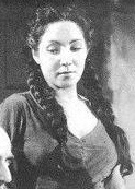 Iris Portillo- actriz